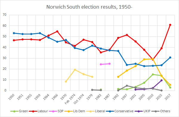 Norwich South election results